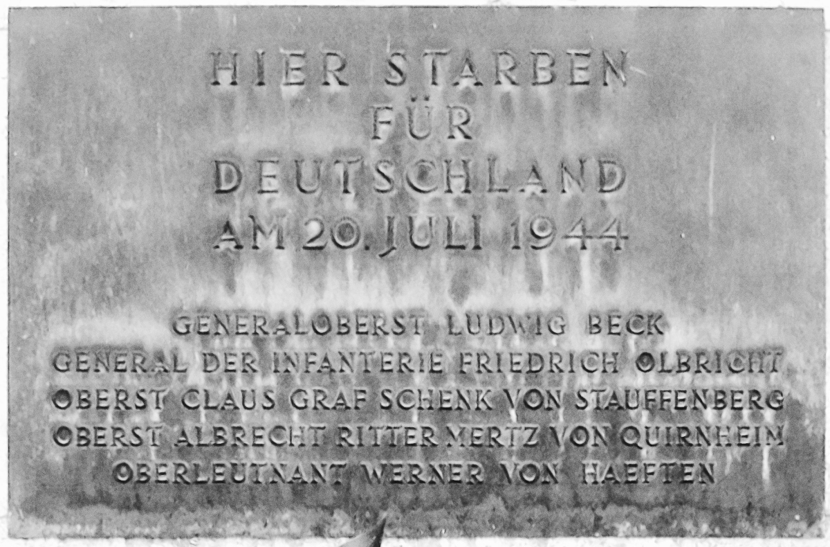 Close-up of the memorial plaque in the courtyard of Bendlerblock, Berlin, Germany.